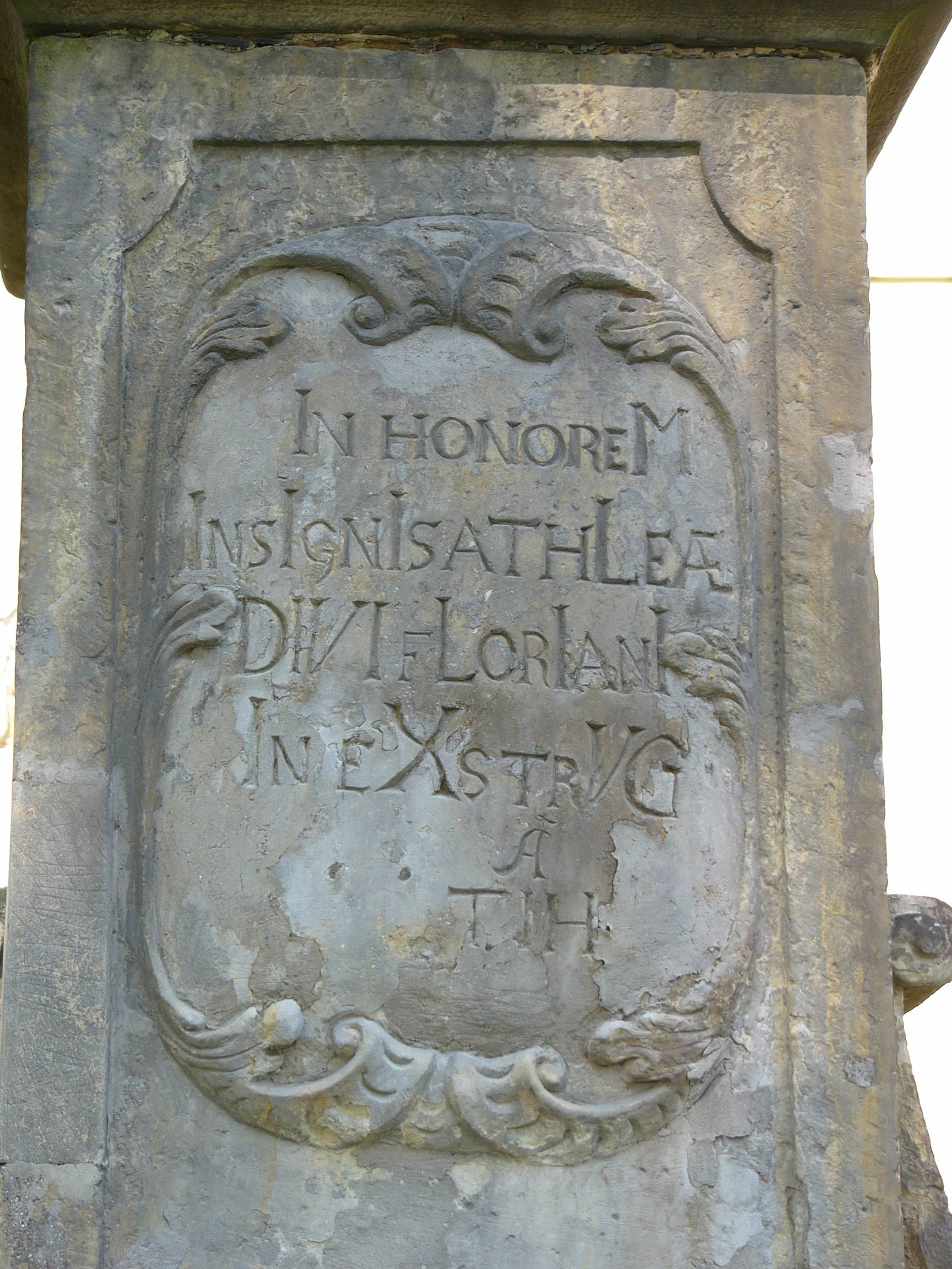 Chronogram at statue near church in Dolany (Czech Republic).